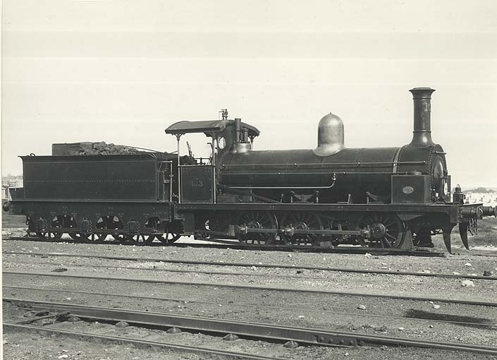 NSWGR E.17 Class Locomotive No.103